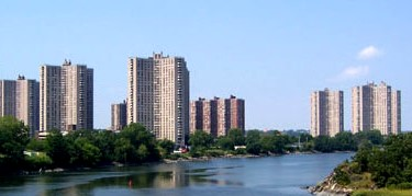 Co-op City sits along the Hutchinson River.